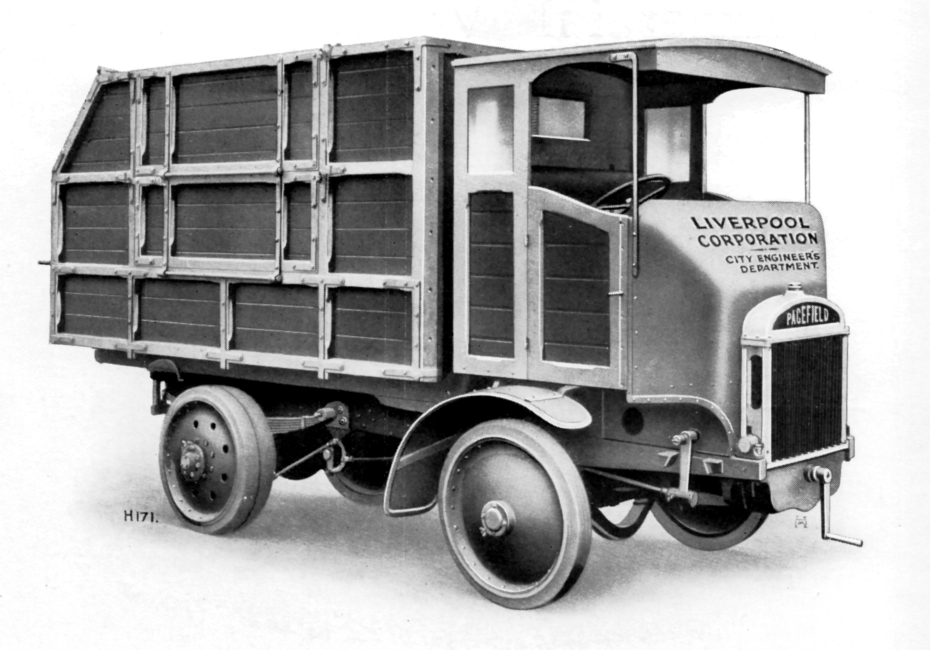 Pagefield Iron Works, Wigan. 1920s Pagefield patent engine-operated tipping gear. Special short wheelbase chassis designed for operating in restricted spaces. 3,5 tonn loads.